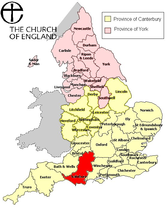 This is a rather poor revision by me of to show the relative position of the Diocese of Salibury.